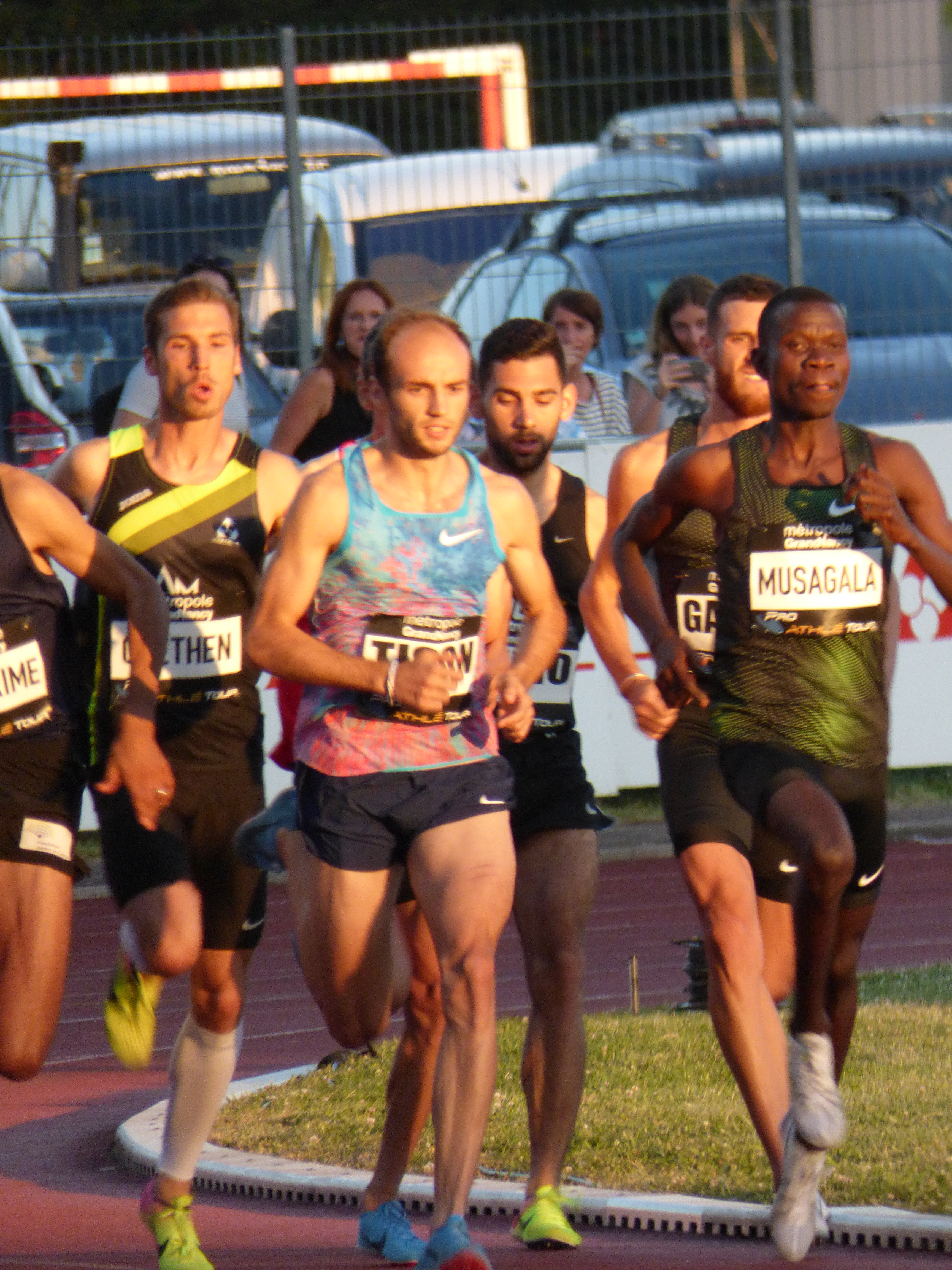 Nancy juin 2018 Meeting D'athlétisme